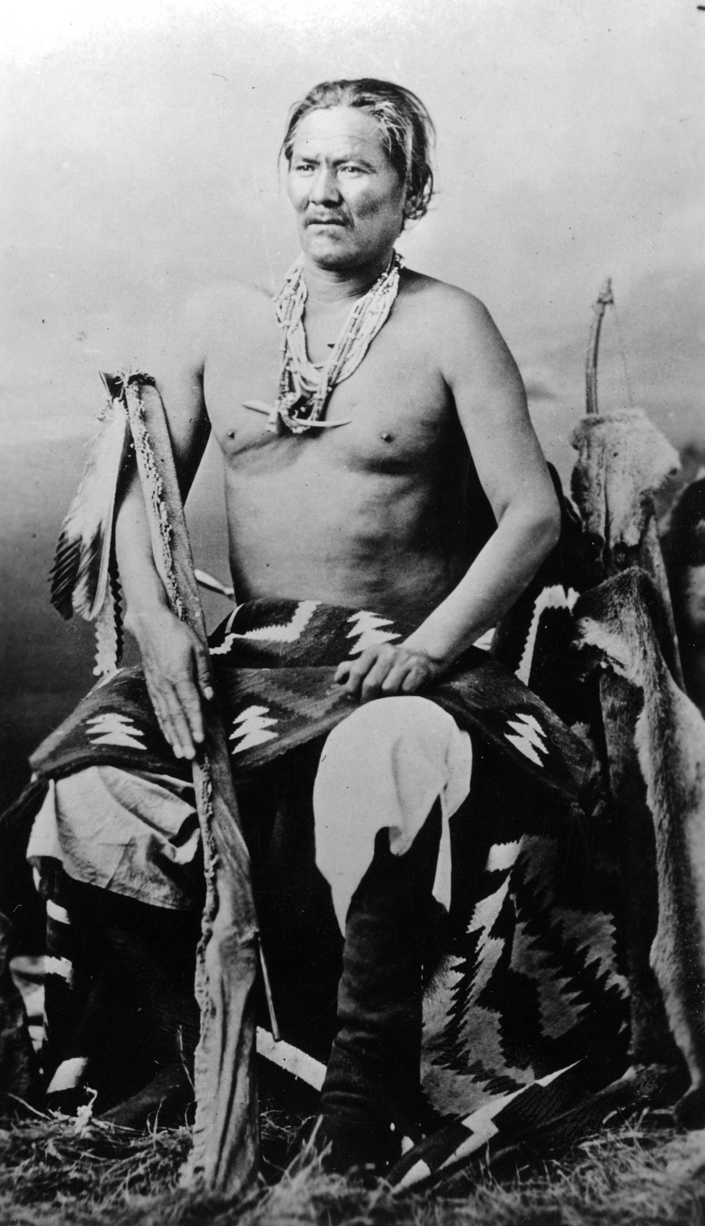 Studio portrait (sitting) of Manuelito, a Native American (Navajo) man. He holds a rifle in a buckskin scabbard and wears moccasin boots, a blanket, and bead necklaces with a saber pendant. "Manuelito, the once fierce chief of the Navajo" and "Saved Navajo Bill's Life Once" hand-written on back of print.